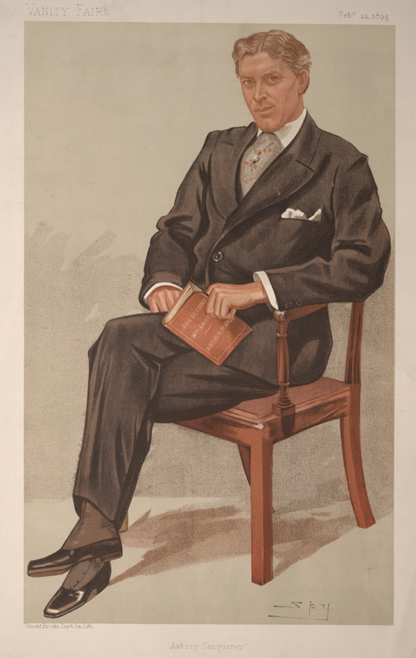 Men of the Day No.578: Caricature of Mr G Alexander. Caption reads: "Aubrey Tanqueray"